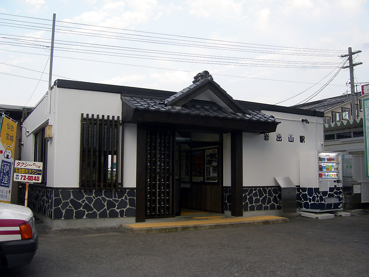 JR East Iwadeyama Station (East Rikuu Line, Osaki City, Miyagi, Japan) after the 2008 renovation